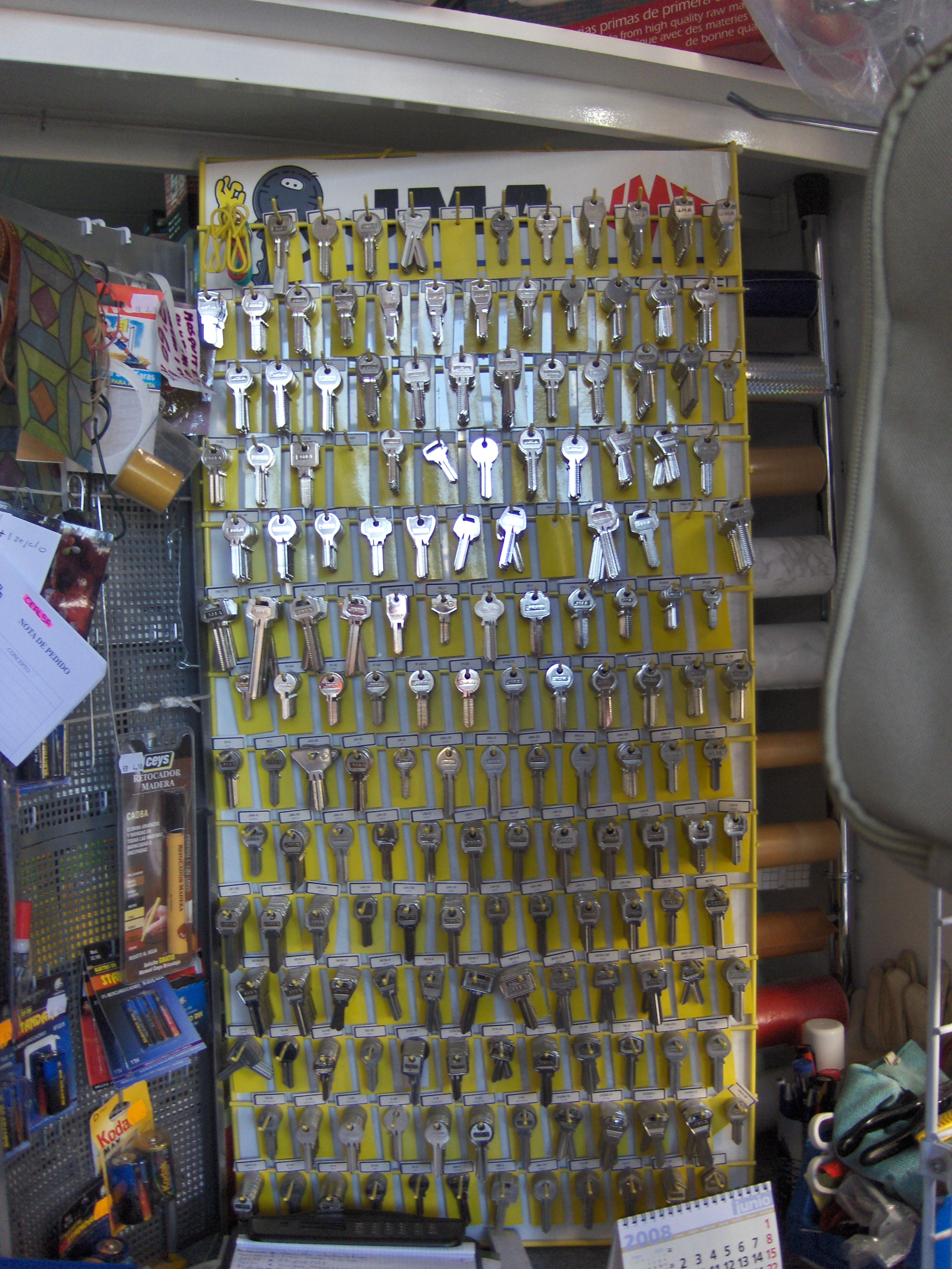 Key blanks.